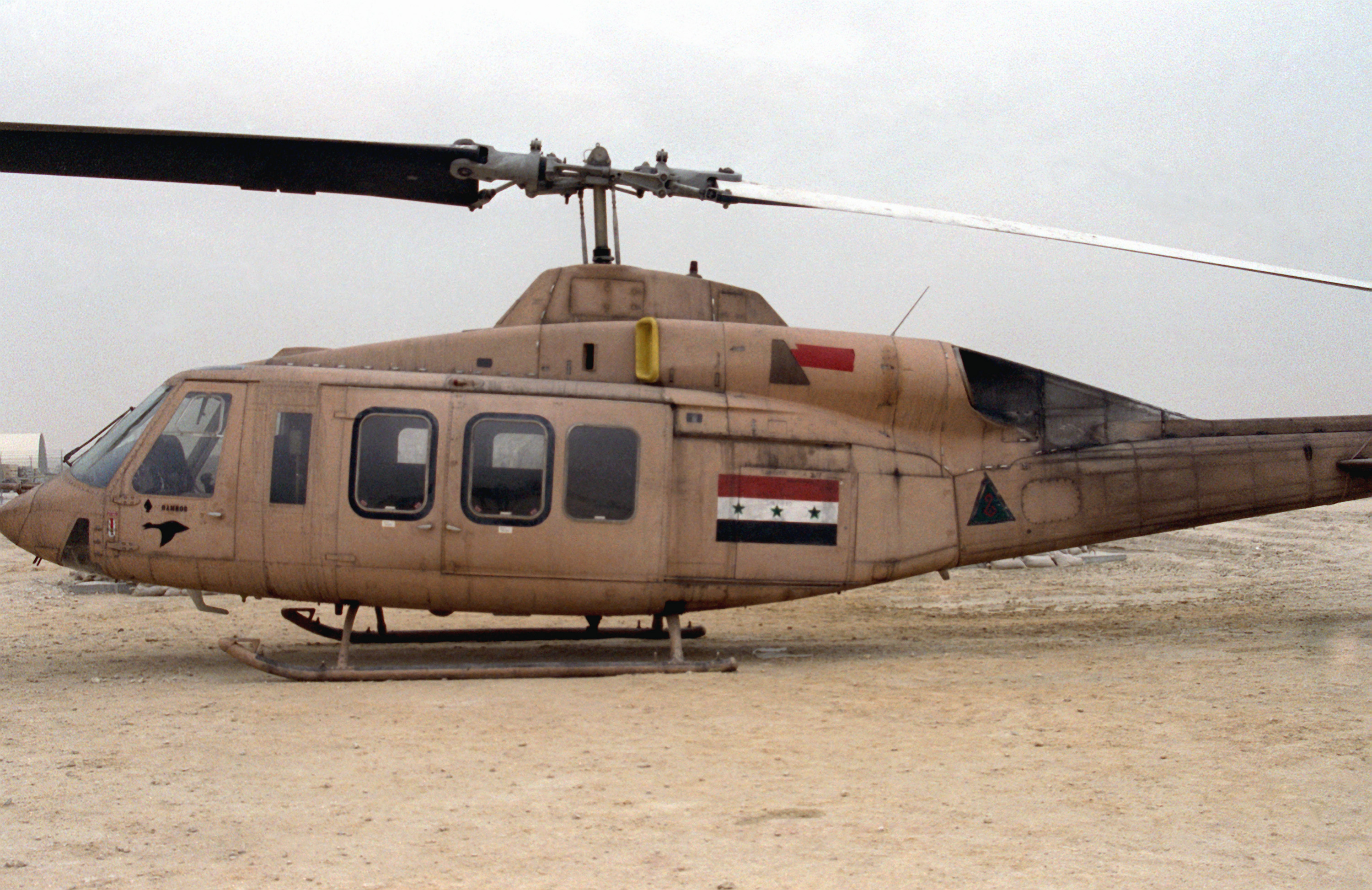 An Iraqi Model 214ST SuperTransport helicopter sits at Jubail Naval Airport, where it was brought after being captured by a Marine unit at the start of the ground phase of Operation Desert Storm.